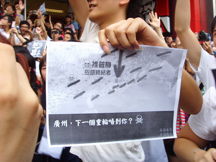 The photo was taken by Wikipedia user:Cheezexyz at 25/7/2010 in Guangzhou during the students protest.